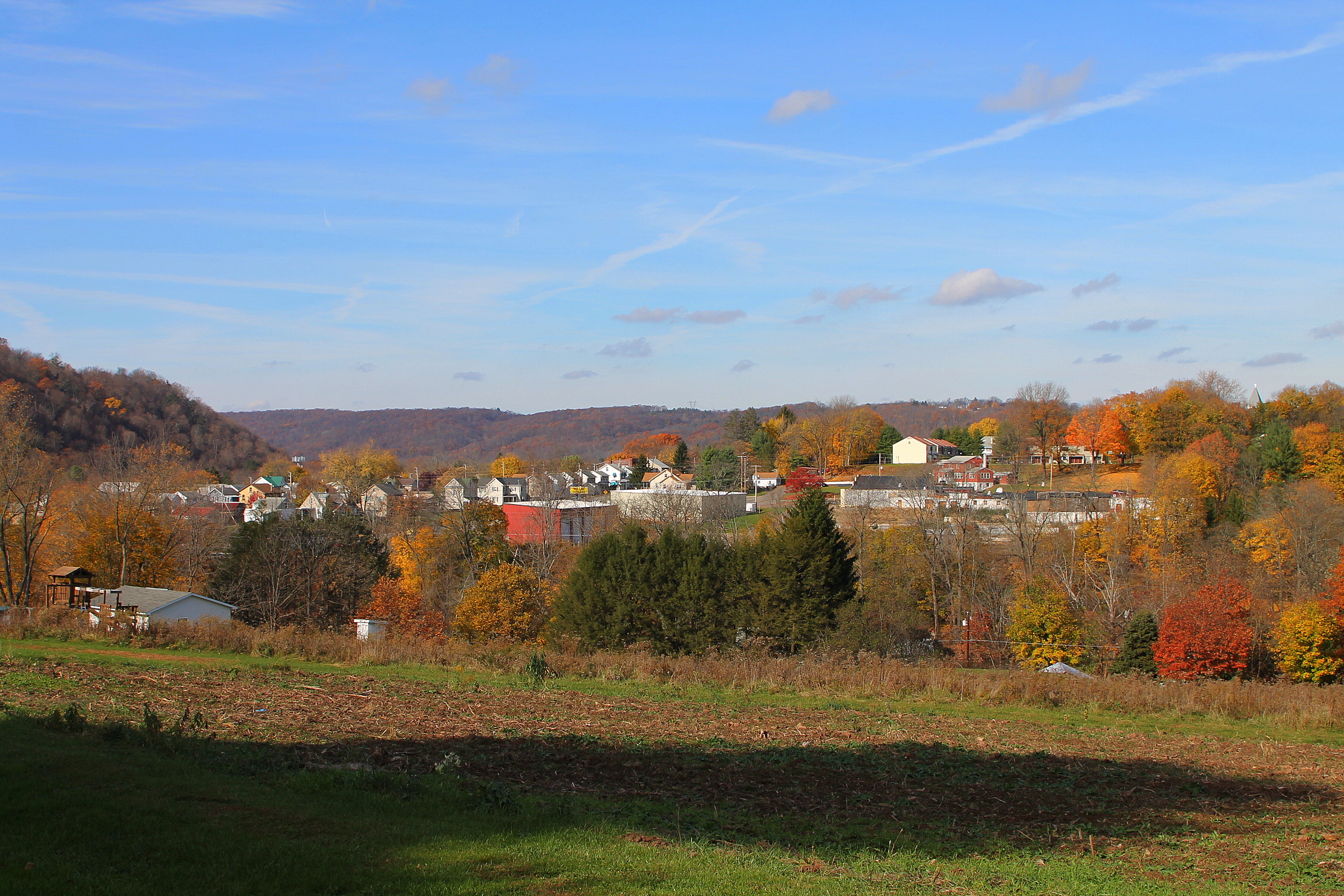 A view of Catawissa, Pennsylvania from old Reading Road